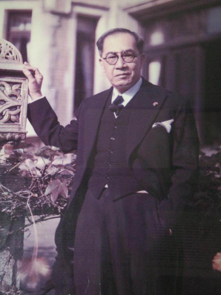 Image of Philippine President Jose P. Laurel, during his visit to Tokyo to attend the Greater East Asia Conference in 1943.